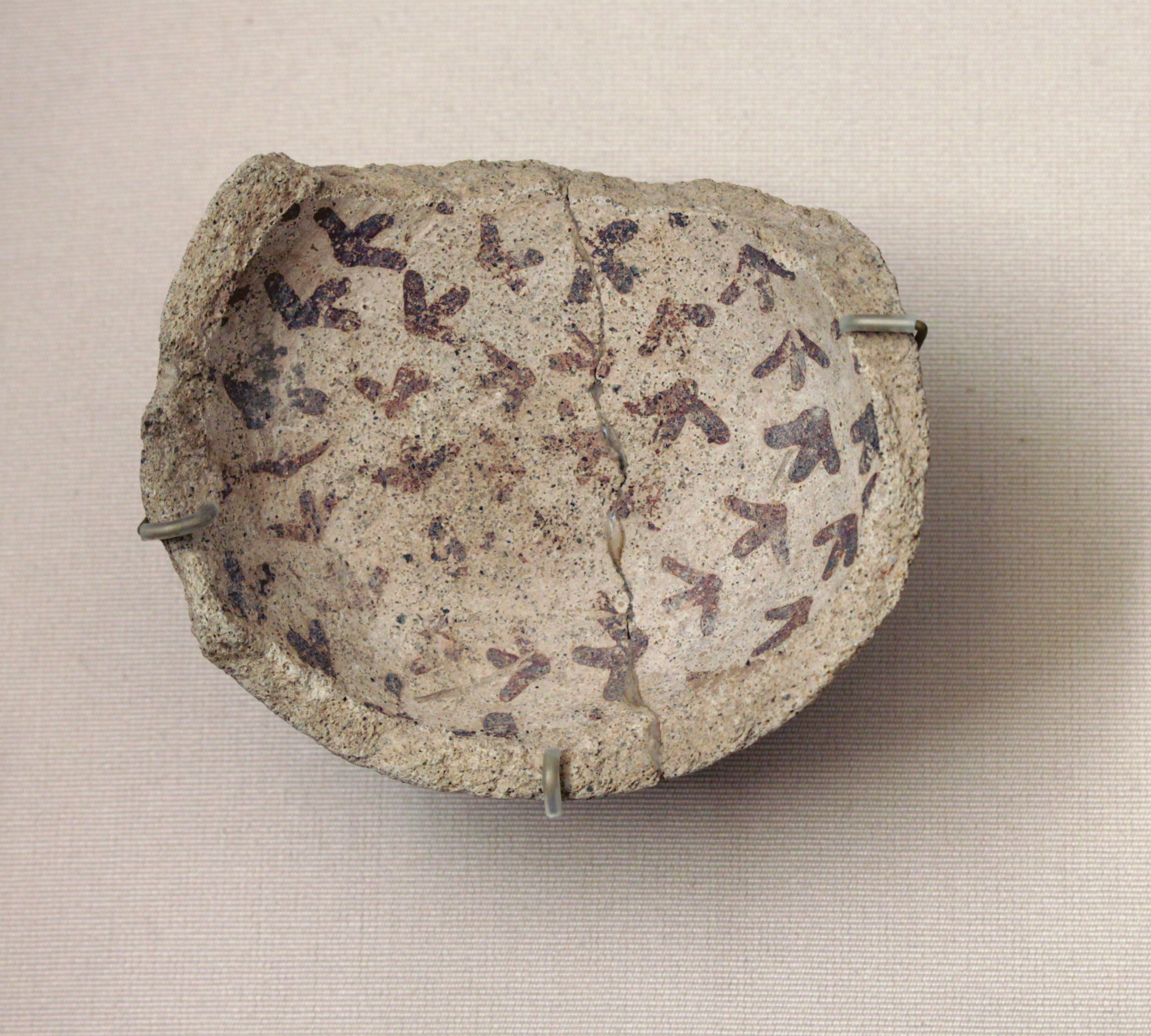 Fragment of pottery with incised and painted decor. From Tell Hassuna, 6500 - 6000 BC. Now in the Louvre Museum ( Near Eastern Antiquities - Room 1a ).